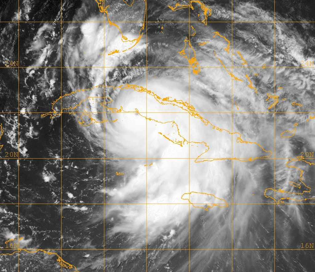 Visible satellite image of Hurricane Dennis shortly before making its second landfall in Cuba on July 8, 2005.